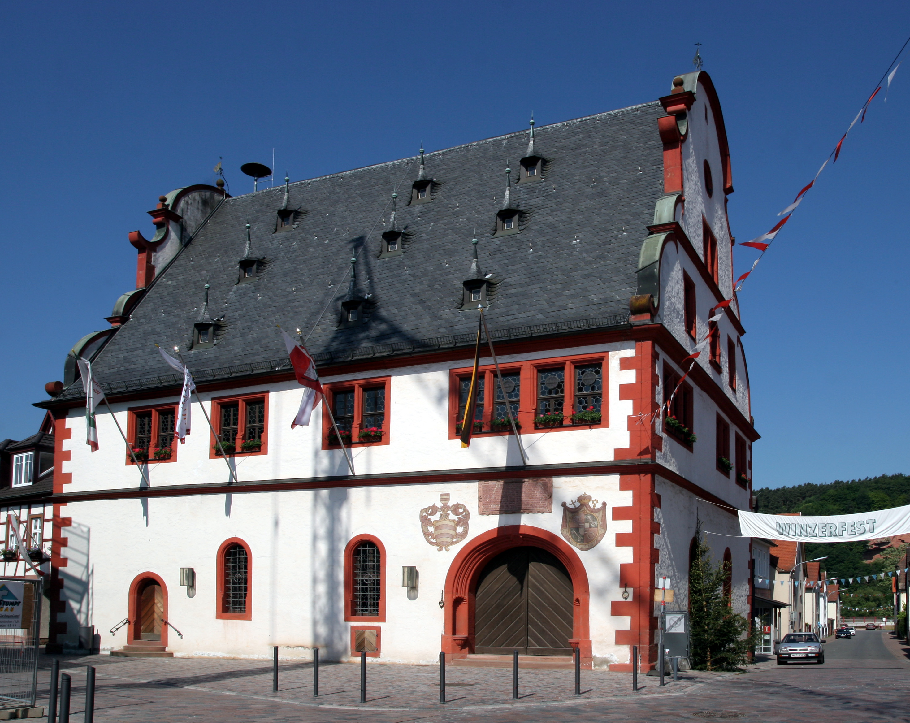 The townhall of Bürgstadt (Germany)